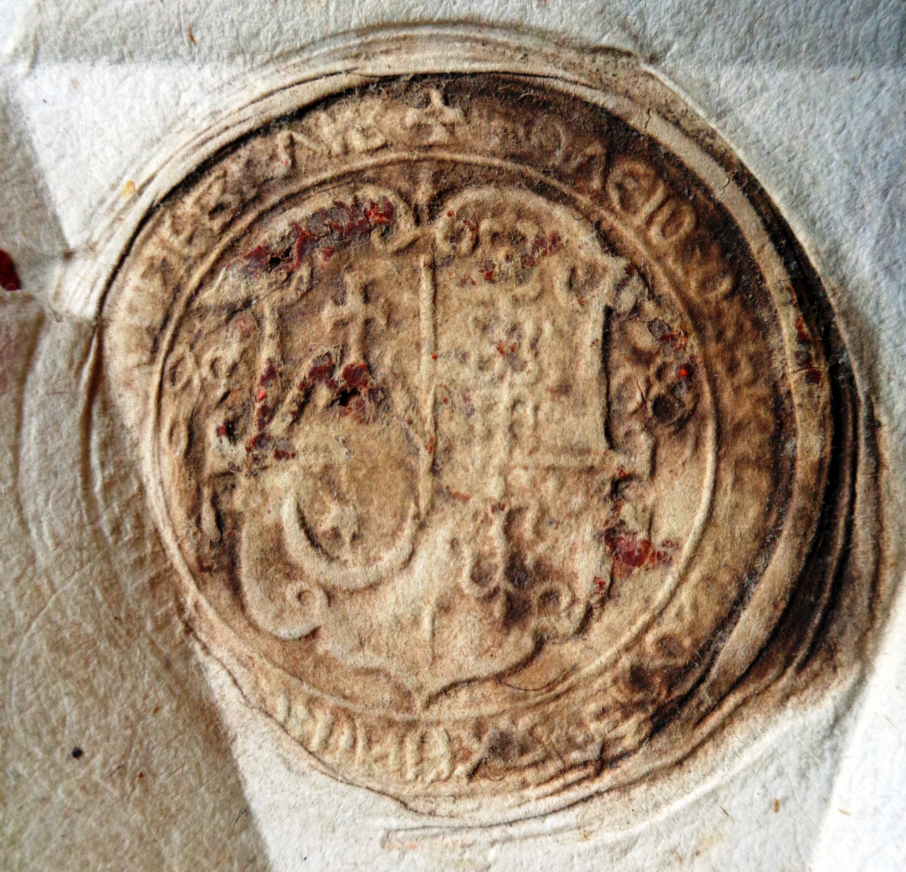 The seal of Onesiphorus Devochka, Metropolitan of Kiev, Halychyna and All-Ruthenia (1579-1589)